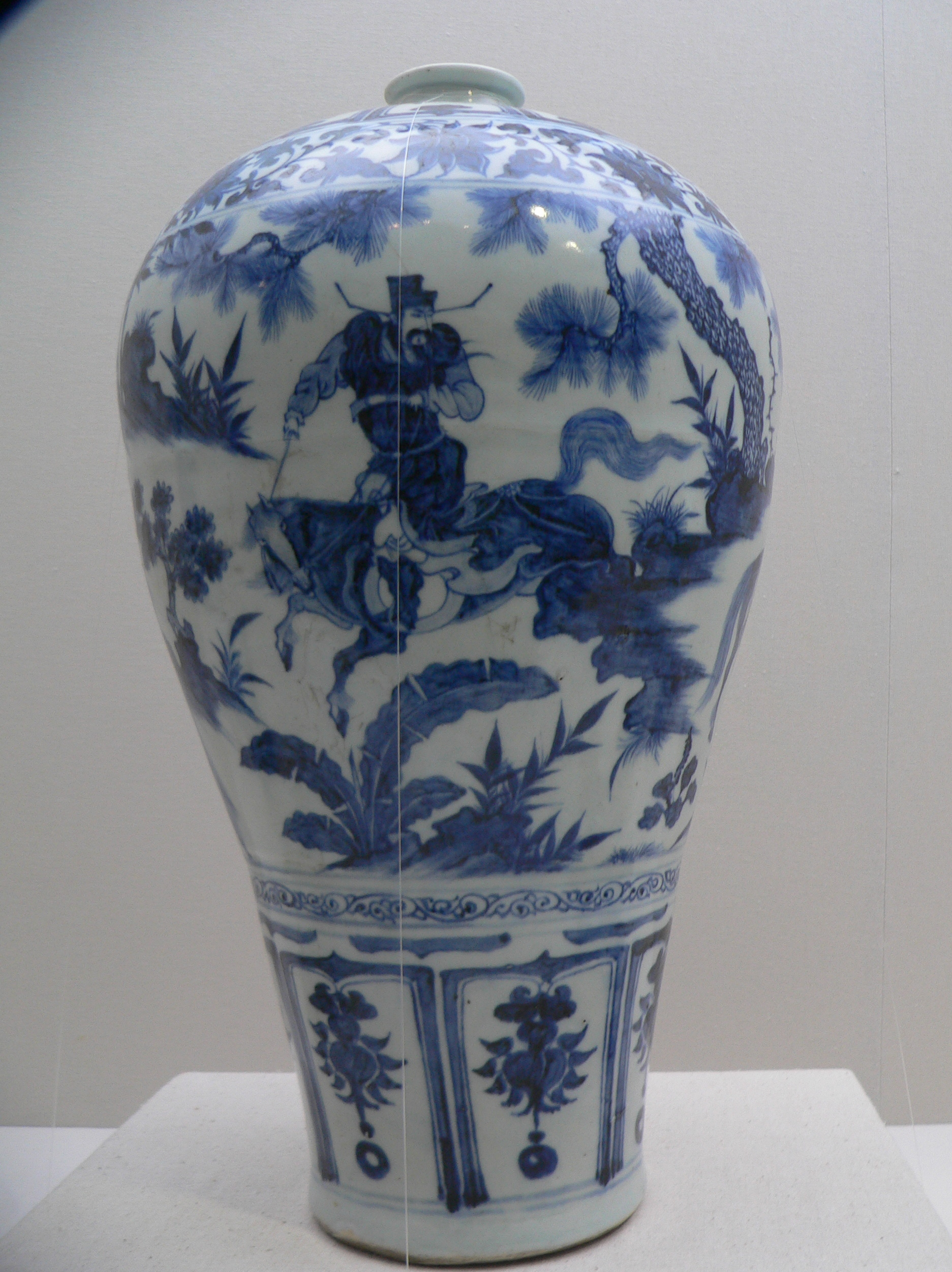 “Xiao He chased after Han Xin during the night” Yuan-blue meiping(vase), Yuan Dynasty, 1950 unearthed from tomb. ?? Doesn't look Yuan - more like 17th century